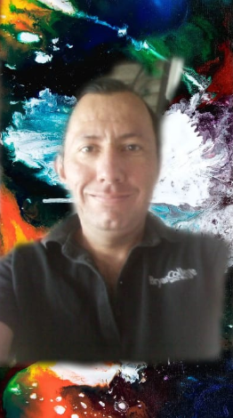 A salvadorean and Christian member of the Baptist Church in EL Salvador, he was a member of the Baptist Association of El Salvador from the firs babtist church in La Paz, El Salvador where Pastor Hector Garcia preach the Gospel of Jesuchrist.